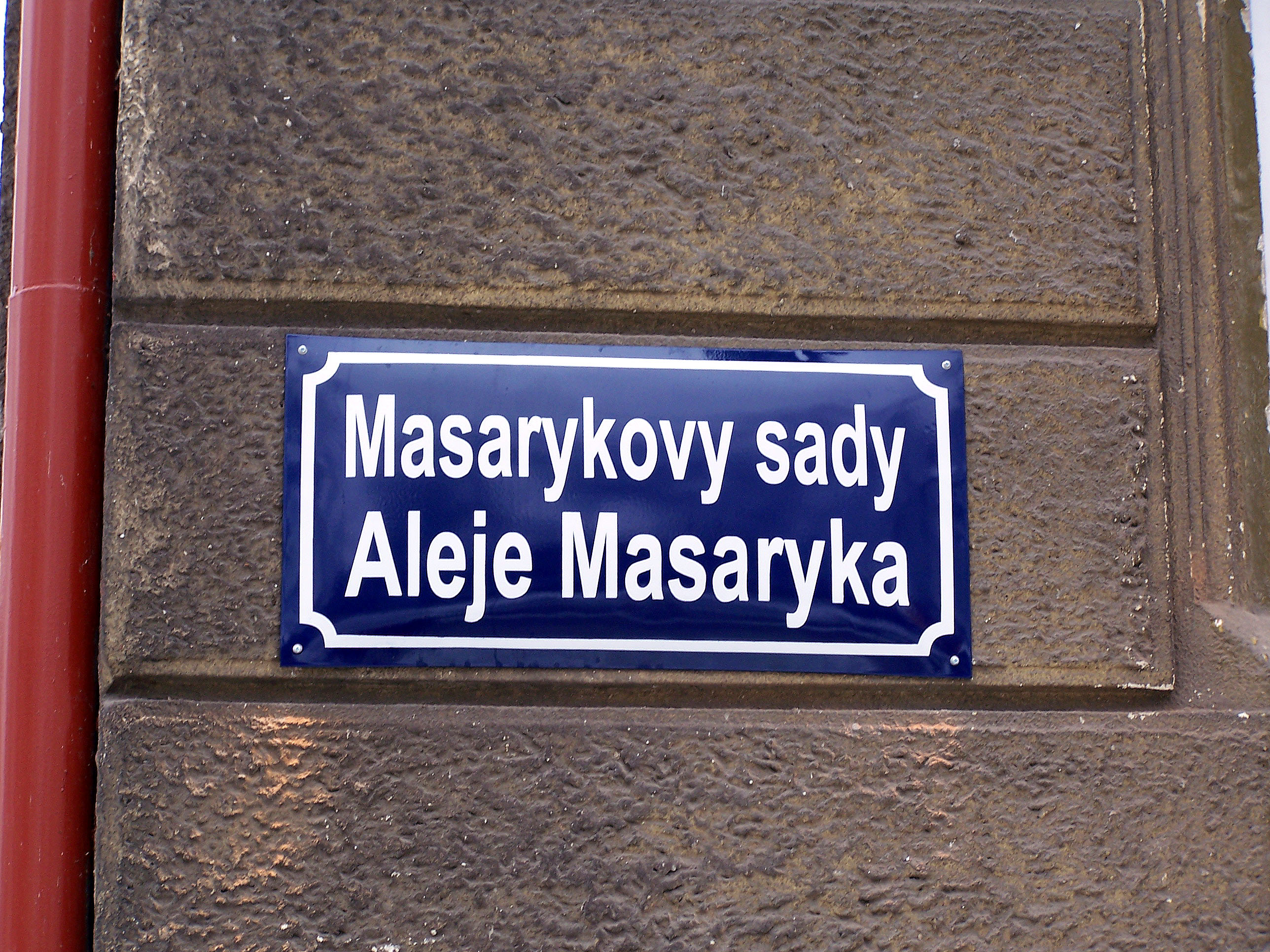 Bilingual street names (Czech and Polish) in Český Těšín (Czeski Cieszyn)